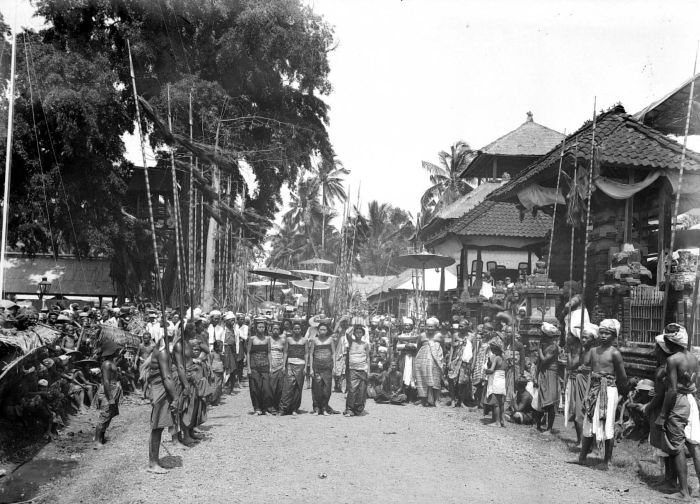 Funeral procession for cremation of Goesti Djilantik in Karangasem. Comment: The Hindu people of Bali had (and still have) a particular position in the archipelago. Hinduism and Buddhism had once had great influences on Java, but were banned following the victory of the Muslim rulers in the 16th and 17th centuries. Bali became a refuge for the Javanese do not wish to live under the rule of Muslim leaders. Cremation was a costly act, especially for Hindu dignitaries whose families were ritually sacrificing a rhinoceros. But for the cremation ceremony of this photo, the family was granted an exemption from by the Governor General, since the species was at that time already protected on the island. (P. Verger, 2001).